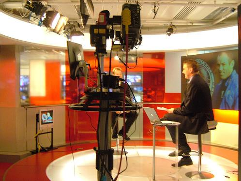 Sir Matthew Pinsent interviewing during a sport section on BBC News 24 in January 2007.